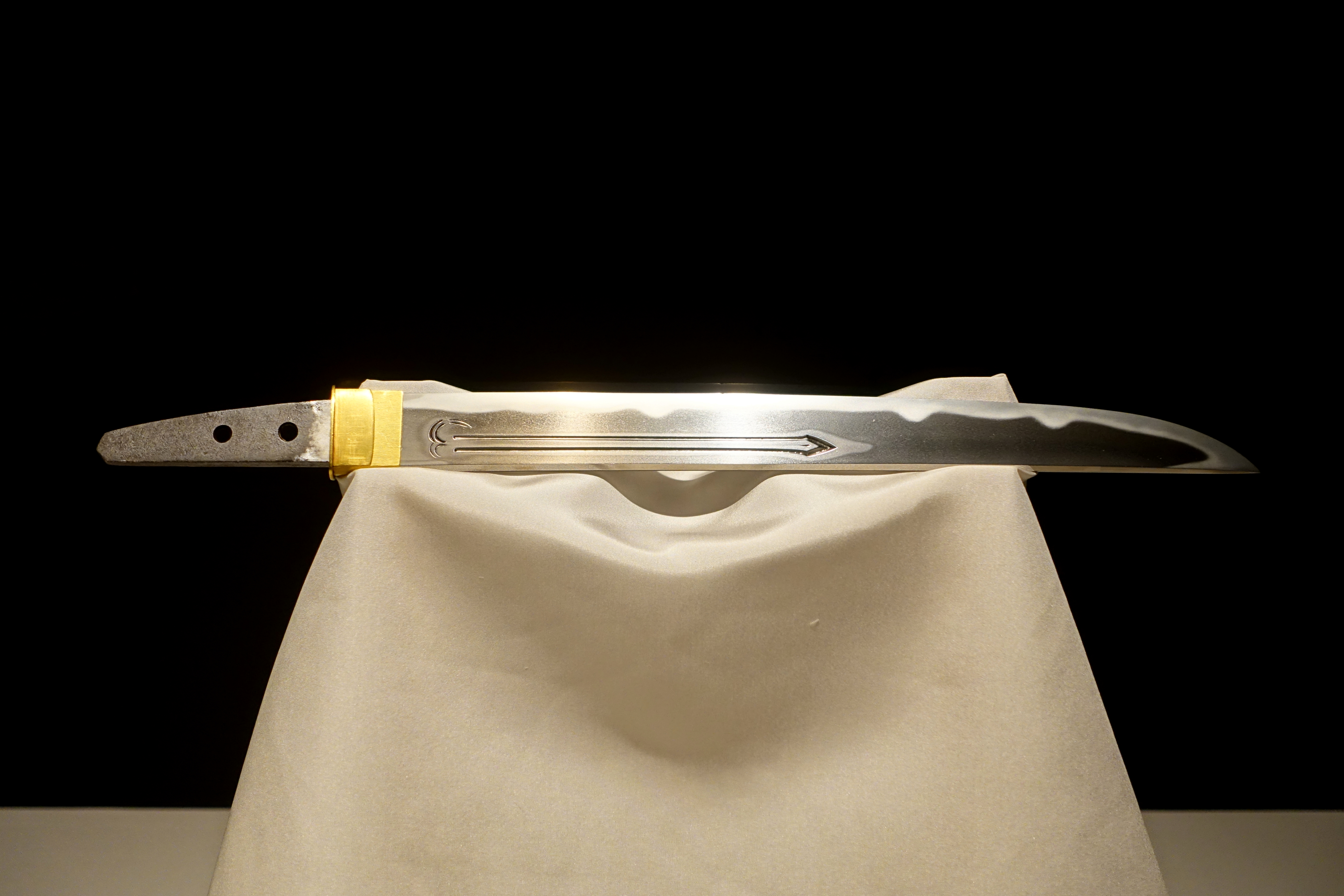 Exhibit in the Tokyo National Museum, Tokyo, Japan. This work is old enough so that it is in the public domain.